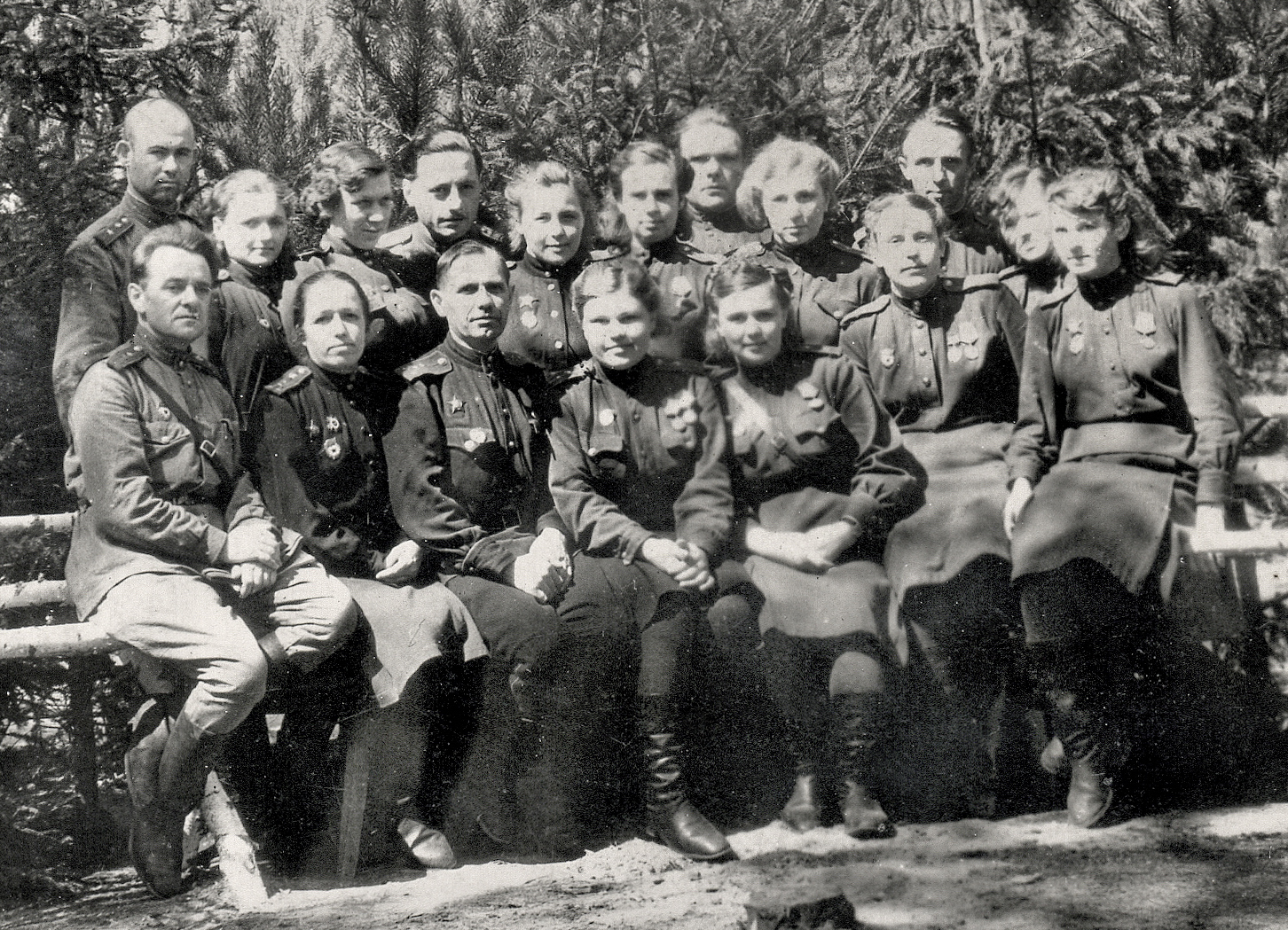 585th (80) Medical Battalion of the 75th Guards Rifle Division. 1944